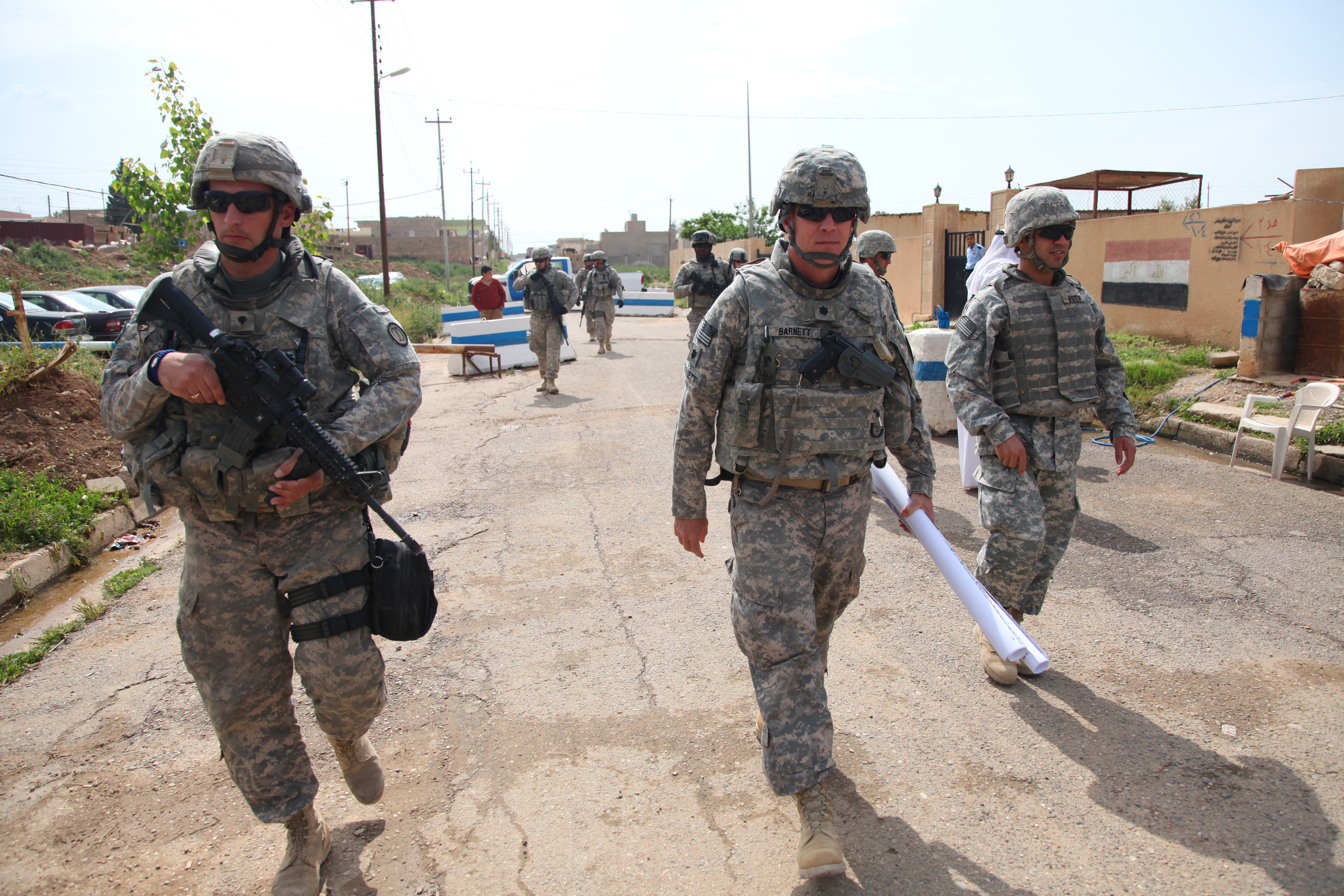 U.S. Soldiers from 214th Military Police (MP) Company, Alabama Army National Guard, march towards Tal Kayf Police Station, to speak with local Iraqi Police officers concerning a training exercise in Tal Kayf district of Mosul, Iraq, May 3, 2011. U.S. Soldiers of 214th MP Company are in Iraq in support of Operation New Dawn. (U.S. Army photo by Spc. Aaron J. Herrera/Released